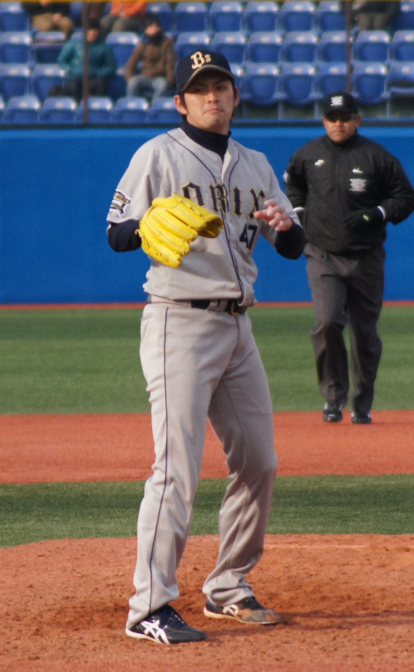 Tomoyuki Kaida, pitcher of the Orix Buffaloes, at Meiji Jingu Stadium.